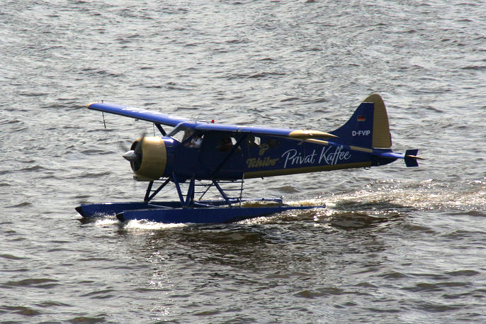 De Havilland Canada DHC-2 Beaver (D-FVIP) "Tchibo"